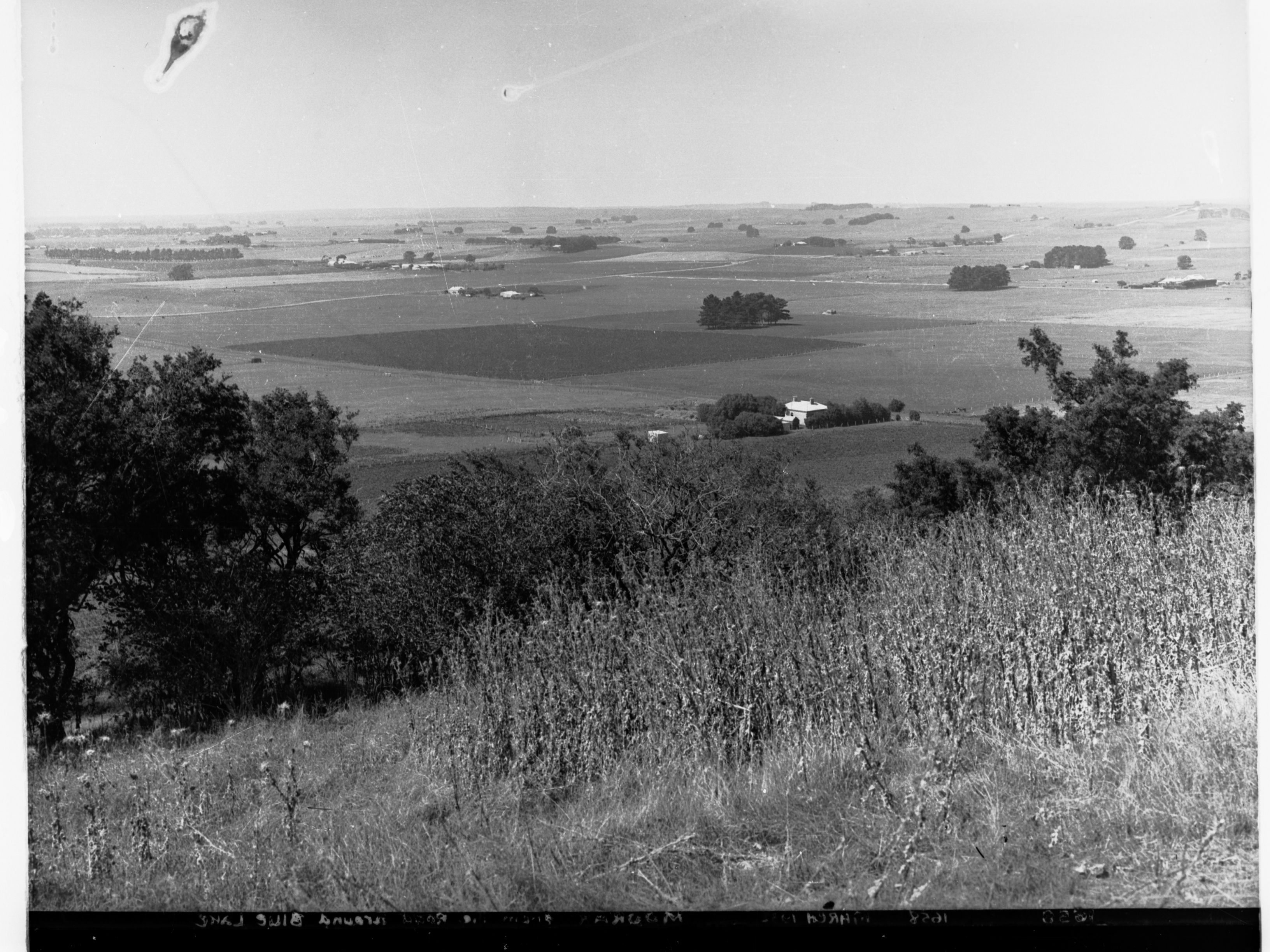 Shows house in distance